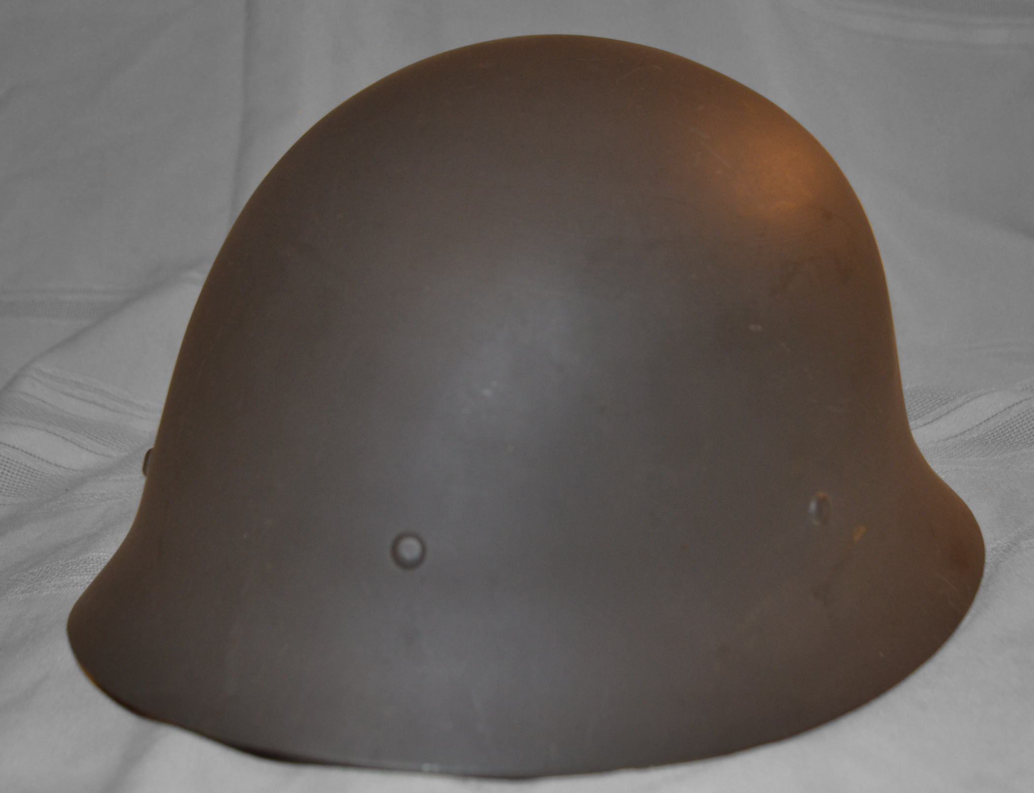 M26 Helmet